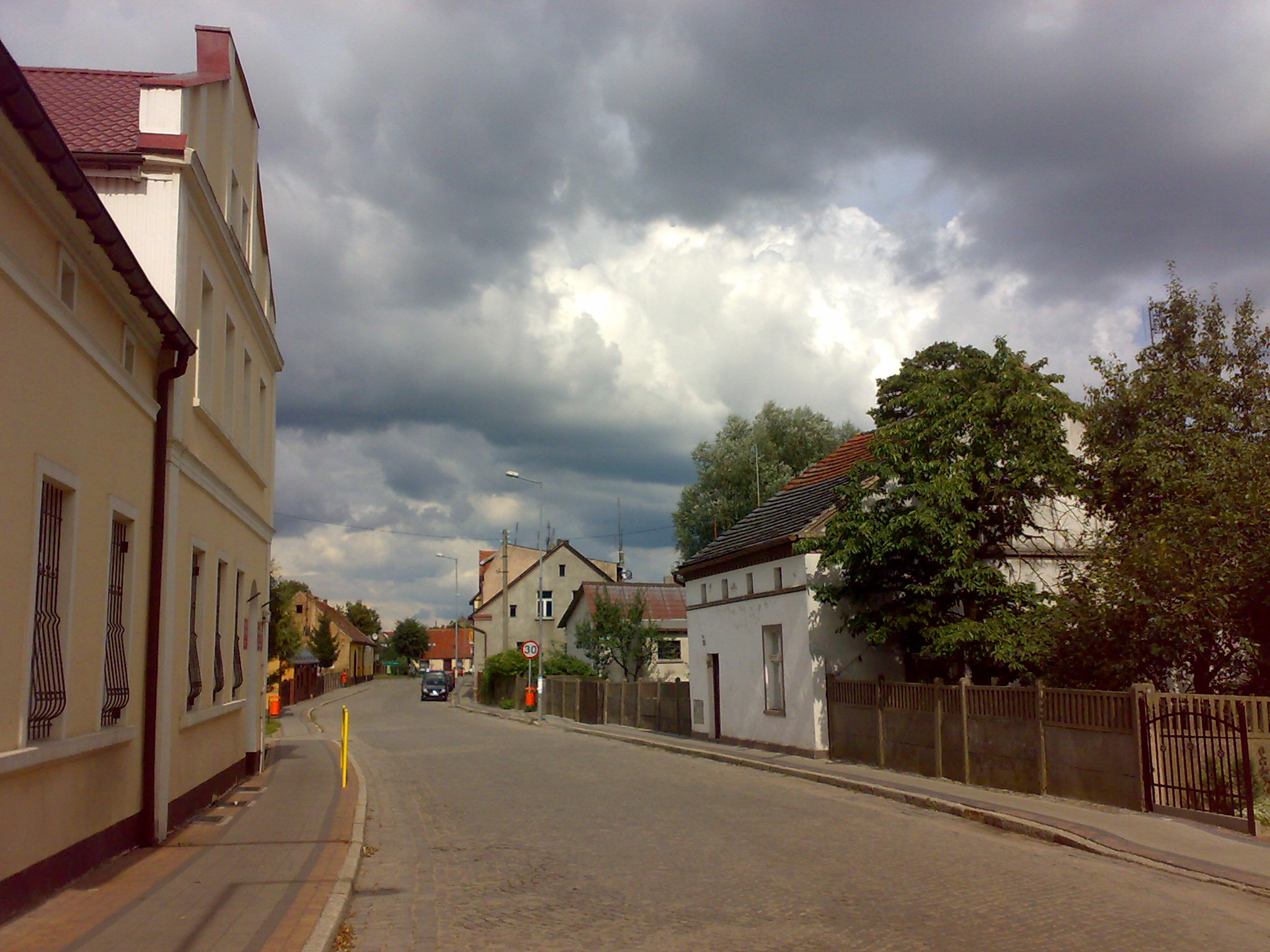 Trzciel - city center.